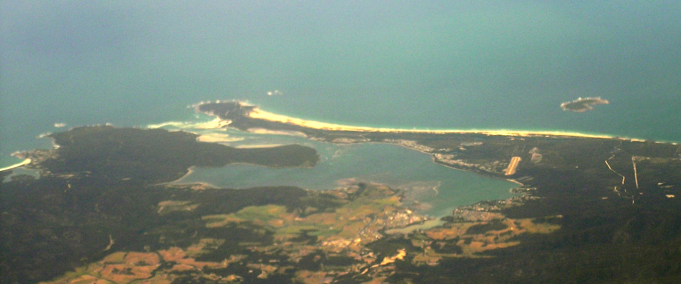 St Helens with Bay viewed from the east.